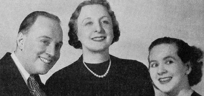 Photo of the main cast of the radio program Dan Harding's Wife. From left: Merrill Fugit (Dean Harding}, Isobel Randolph (Rhoda Harding), Loretta Poynton (Donna Harding). Dean and Donna were twins and the children of Rhoda and Dan Harding.